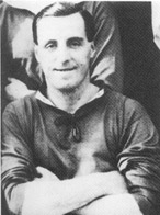 Image is from LFC teamphoto in 1915